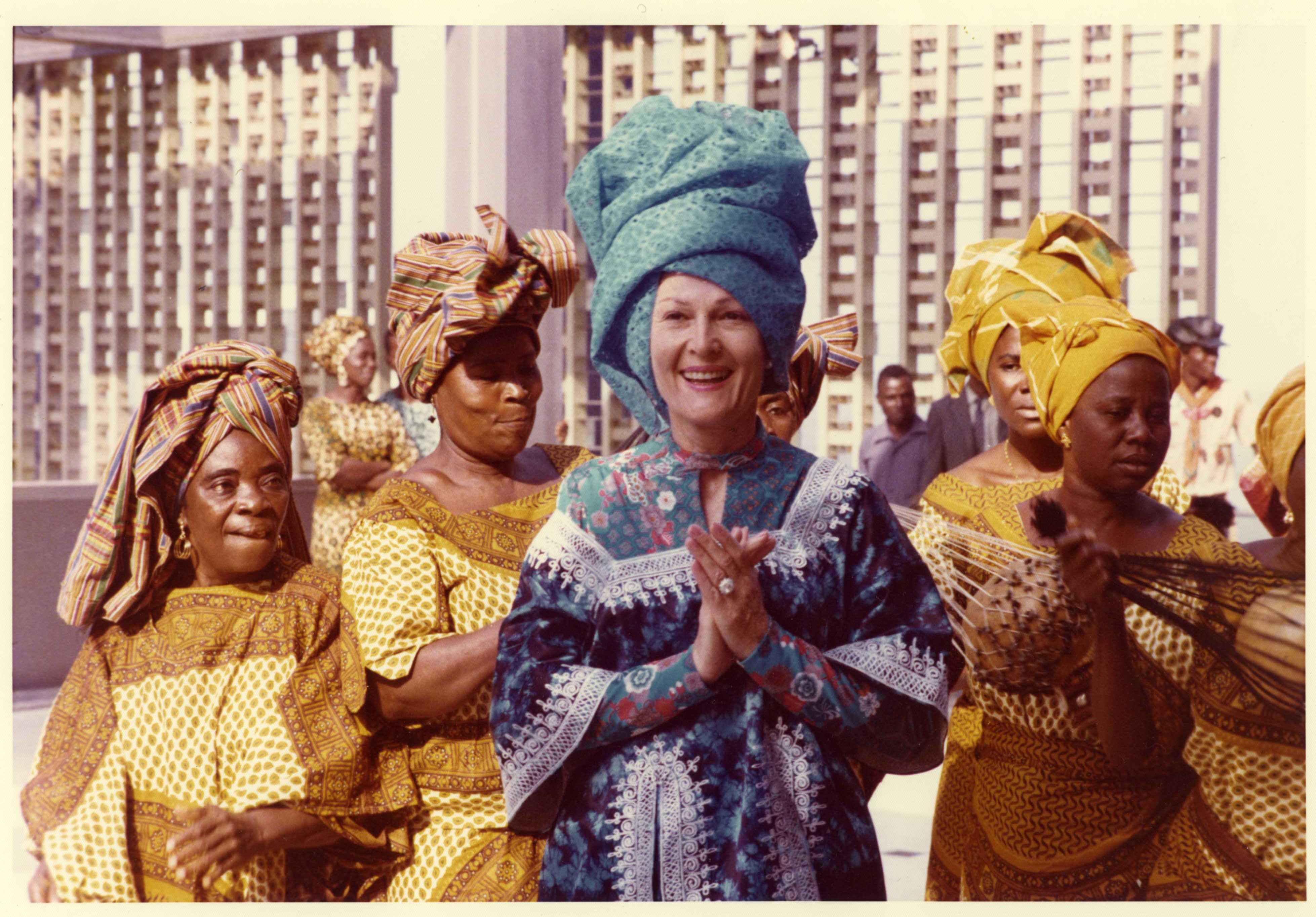 US First Lady Pat Nixon takes part in a traditional dance in Monrovia, Liberia. Nixon White House image C8234-17A National Archives identifier 5730816